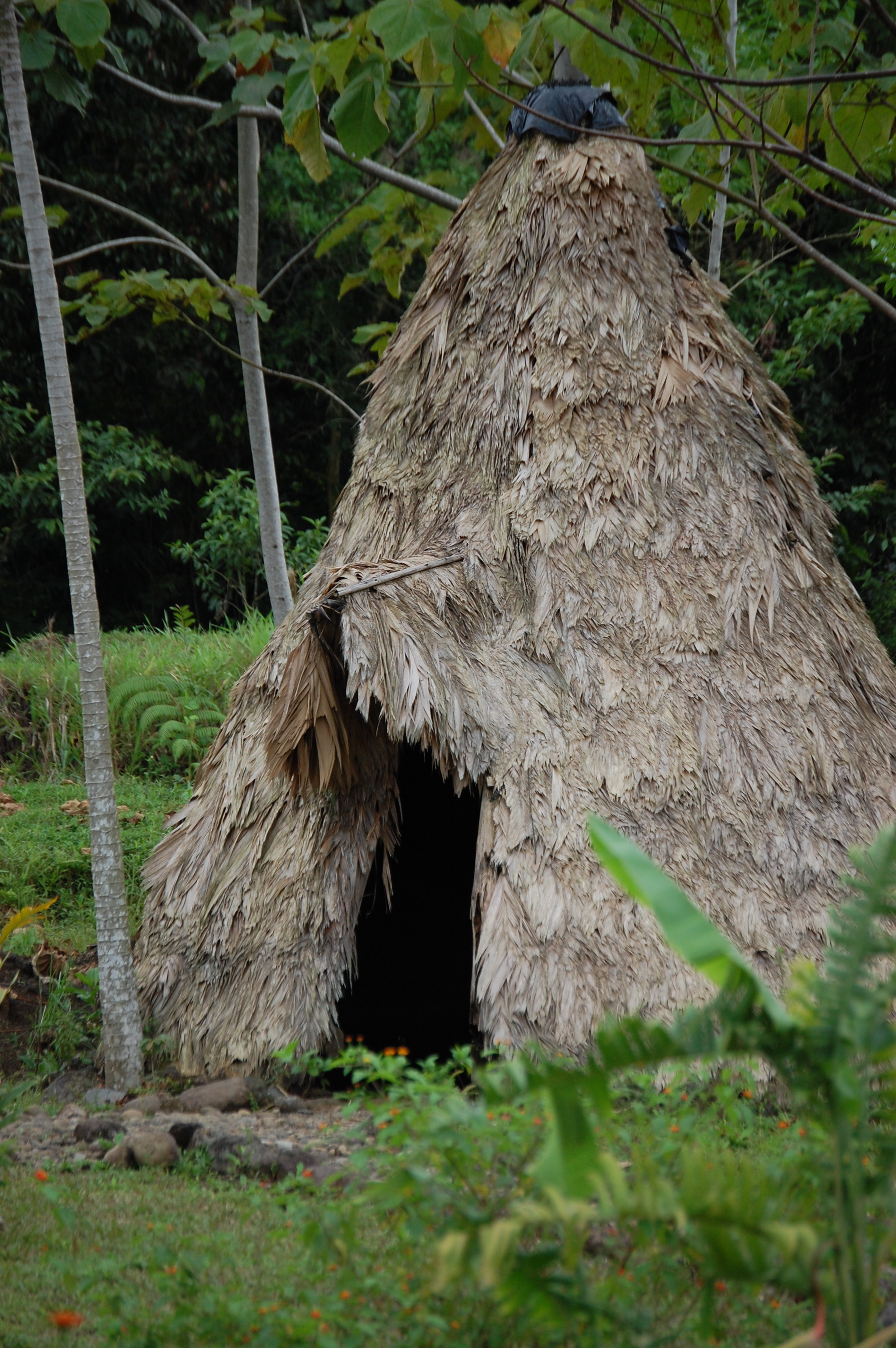 A traditional conical hut of the Maleku indigenous people of Costa Rica, in a Maleku trading/tourist outpost near La Fortuna, Costa Rica.